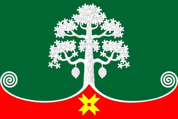 Flag of Segezha urban settlement, Karelia, Russia